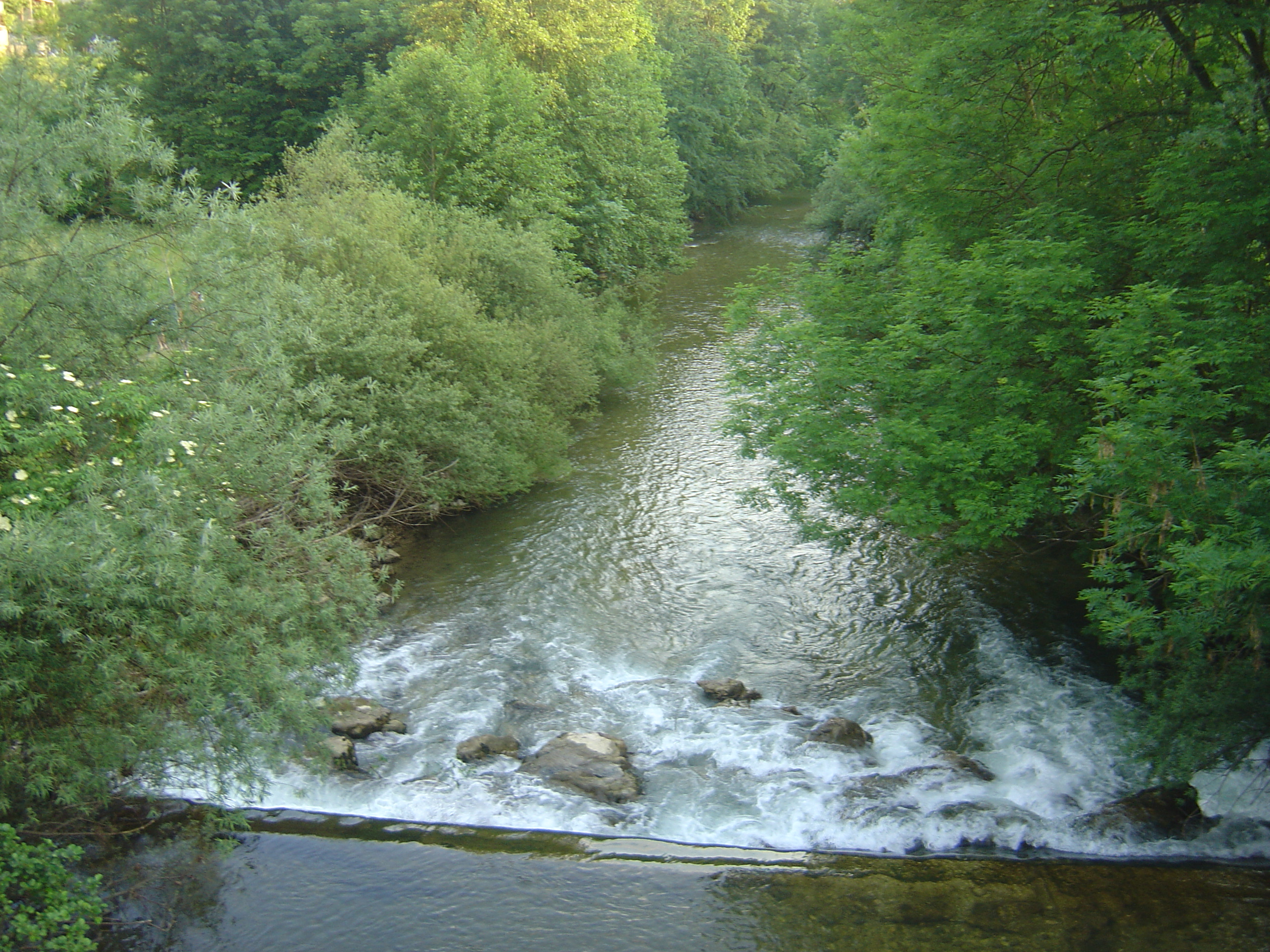 Kanjon Kokre, Kranj, Slovenia